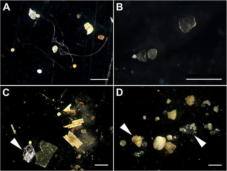 Microplastics in sediments from the rivers Elbe (A), Mosel (B), Neckar (C), and Rhine (D).Note the diverse shapes (filaments, fragments, and spheres) and that not all items are microplastics (e.g., aluminum foil (C) and glass spheres and sand (D), white arrowheads). The white bars represent 1 mm.